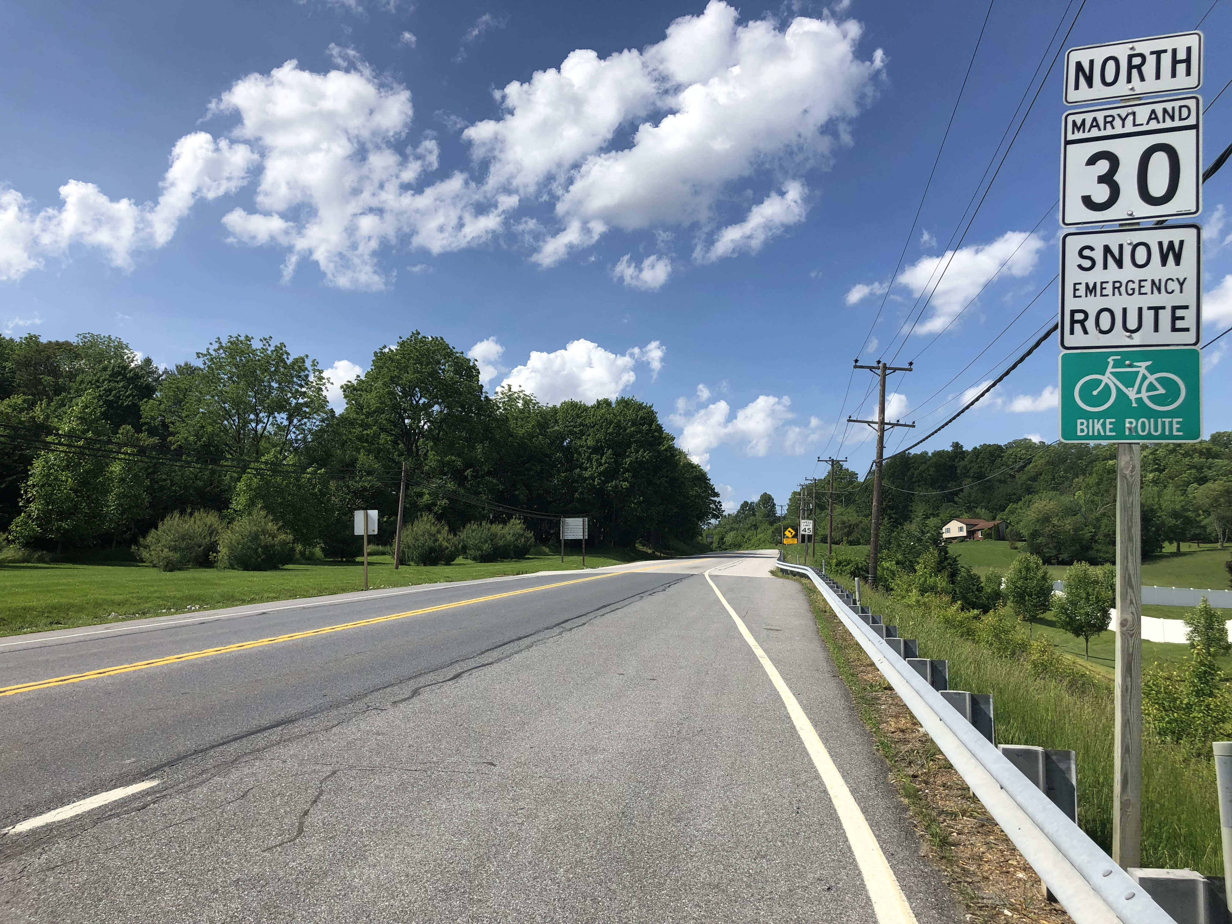 View north along Maryland State Route 30 (Hanover Pike) just north of Maryland State Route 86 (Lineboro Road) in Manchester, Carroll County, Maryland